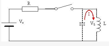 Same as Induc2a.png but open switch an current through inductor and stray capacitance.